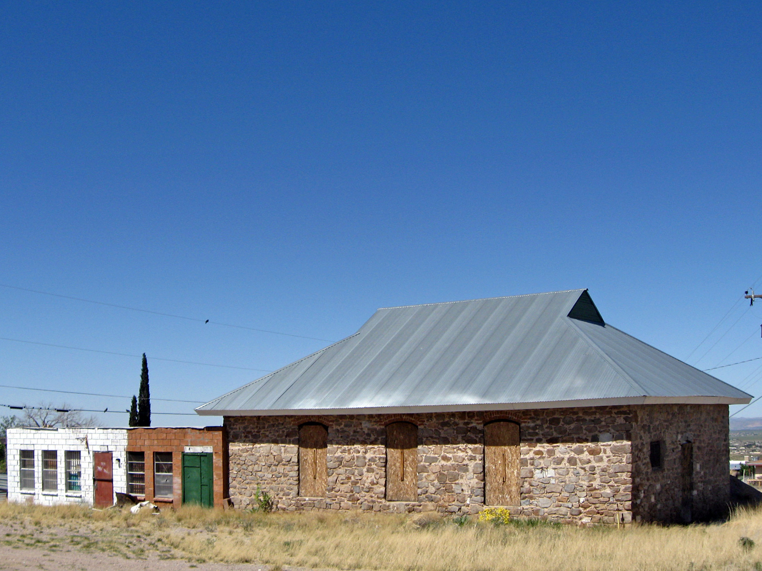 Old schoolhouse in Organ, New Mexico. Located at the southwest corner of B Street and Third Street. This photo taken from the southeast corner of the intersection looking southwest.